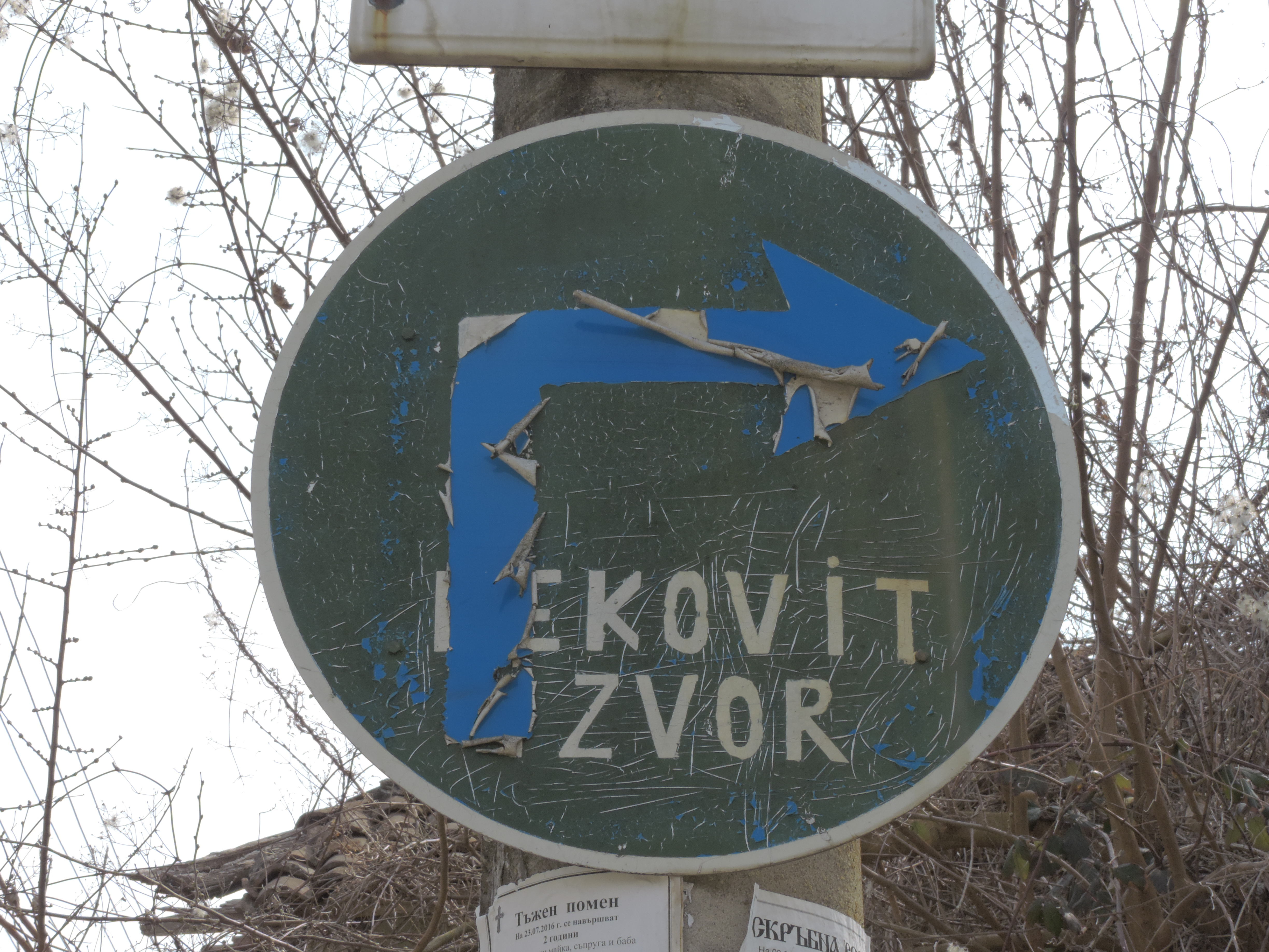 A sign in translit, showing the way to the mineral spring near village Balyuvitsa, Berkovitsa Municipality, Montana Province, Bulgaria